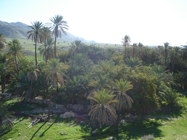 Balangestan fedagh